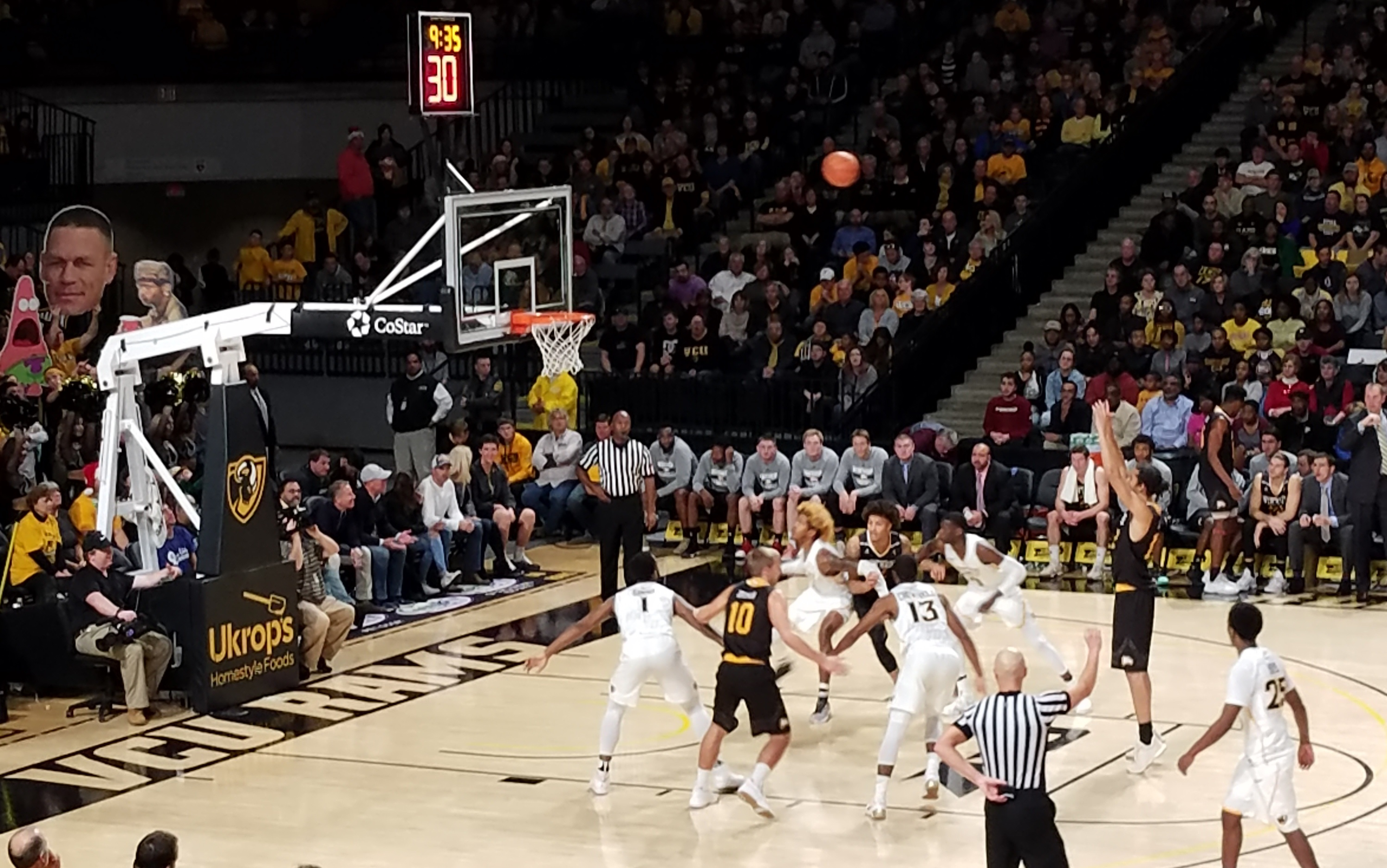 Xavier Cooks shooting a free throw during the WU/VCU game in Richmond, VA.